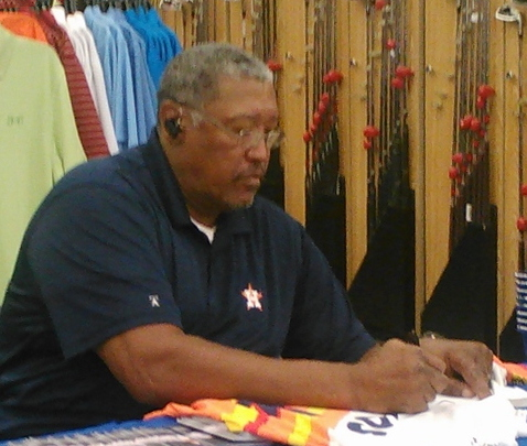 J. R. Richard. Took the photo on August 5,2013 in Houston, TX at an Academy Sports + Outdoors.